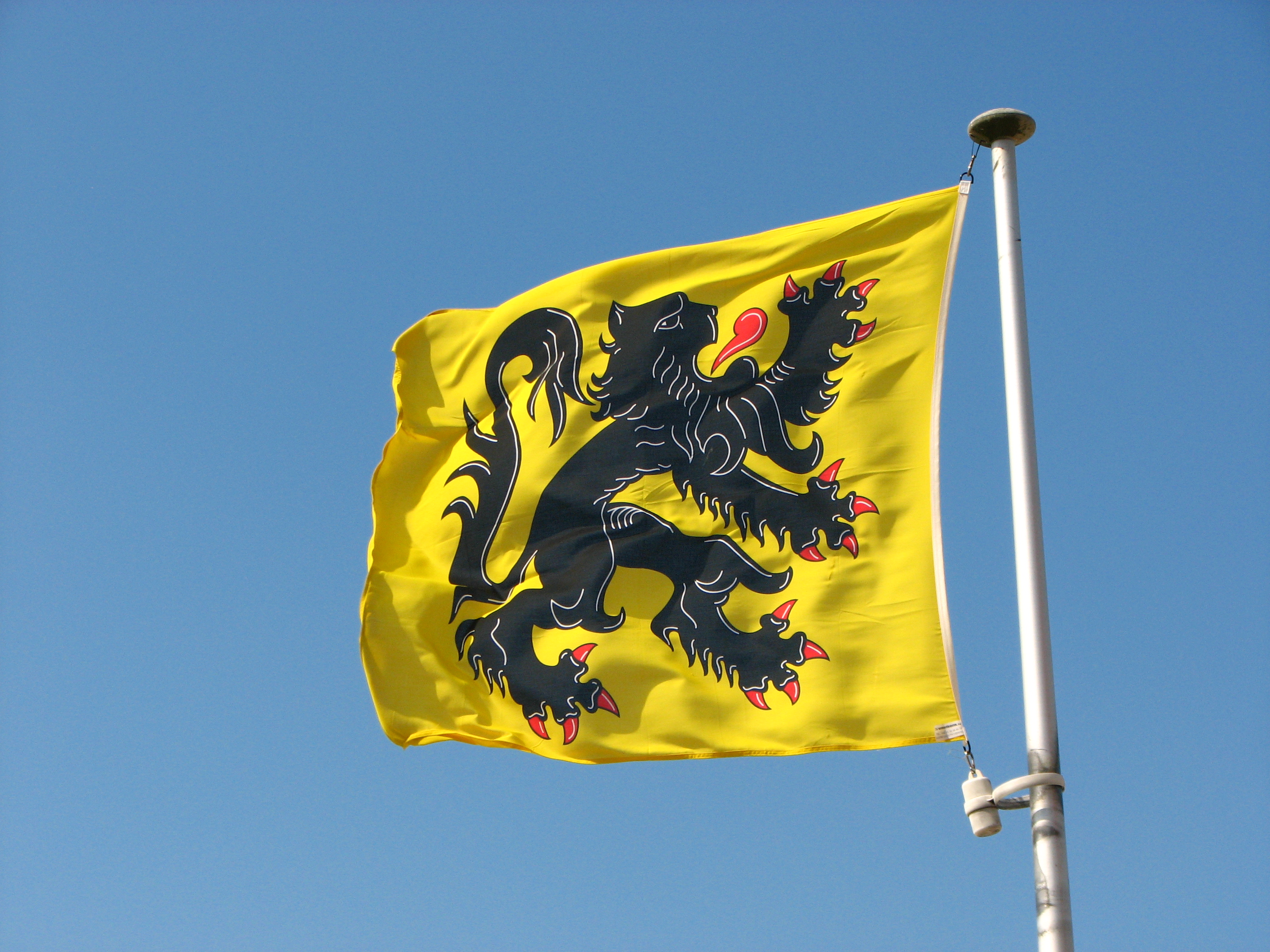 Flemish Flag